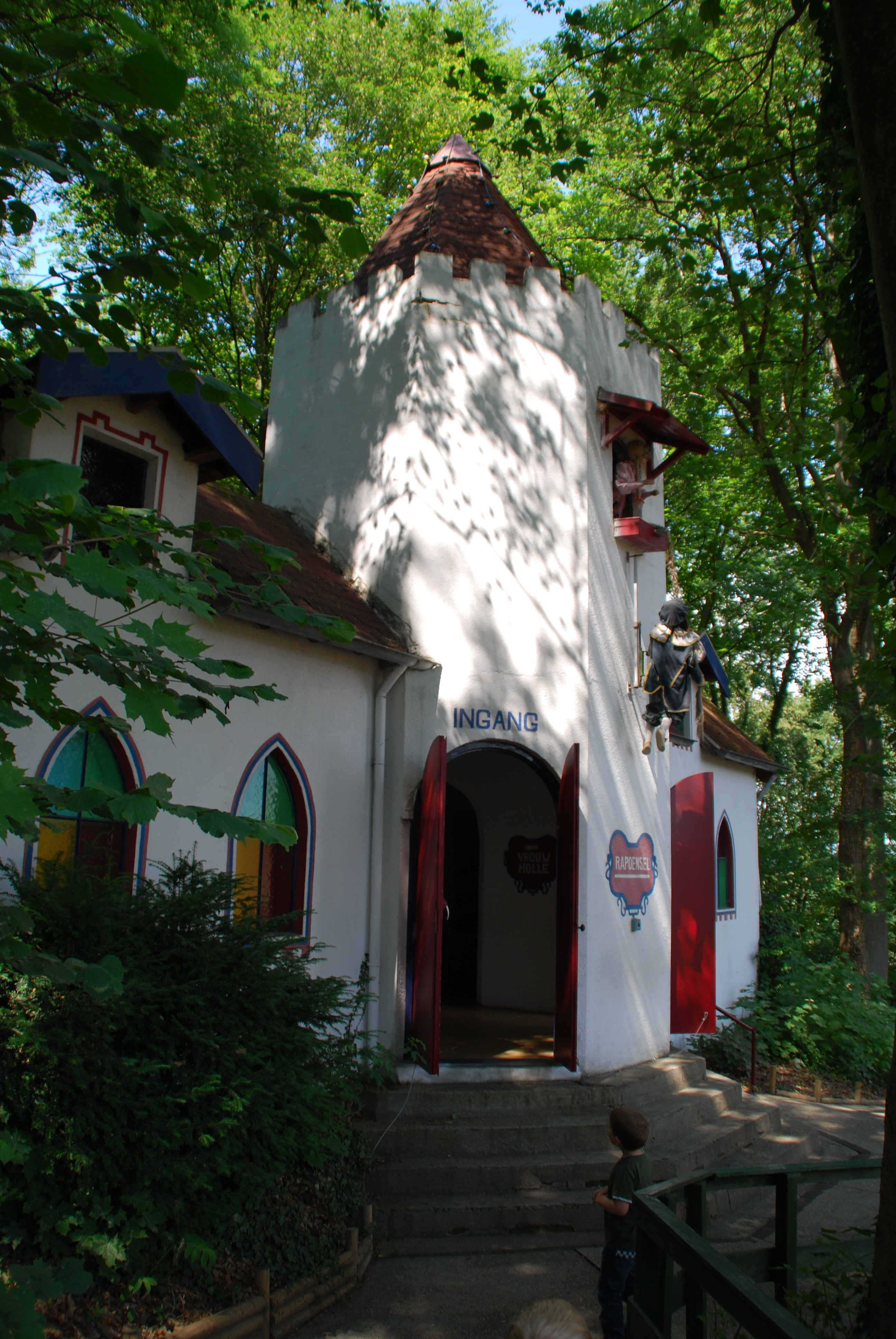 Sprookjesbos Valkenburg